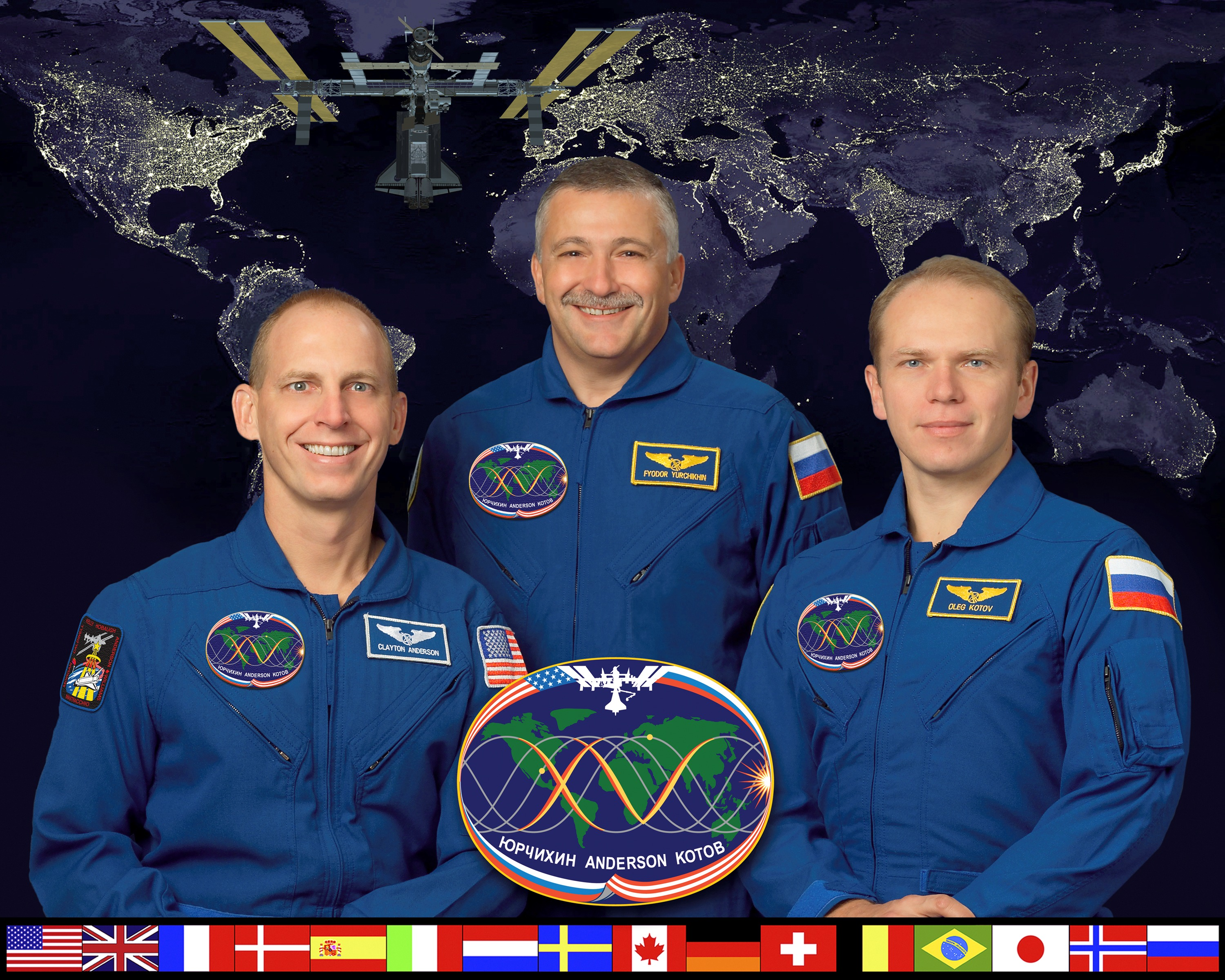 Expedition 15 crewmembers posed for photos at the conclusion of a Dec. 13 press conference at the Johnson Space Center. From the left are astronaut Clayton C. Anderson, flight engineer; along with cosmonauts Oleg Kotov, flight engineer and Soyuz commander; and Fyodor Yurchikhin, commander. Kotov and Yurchikhin represent Russia's Federal Space Agency.